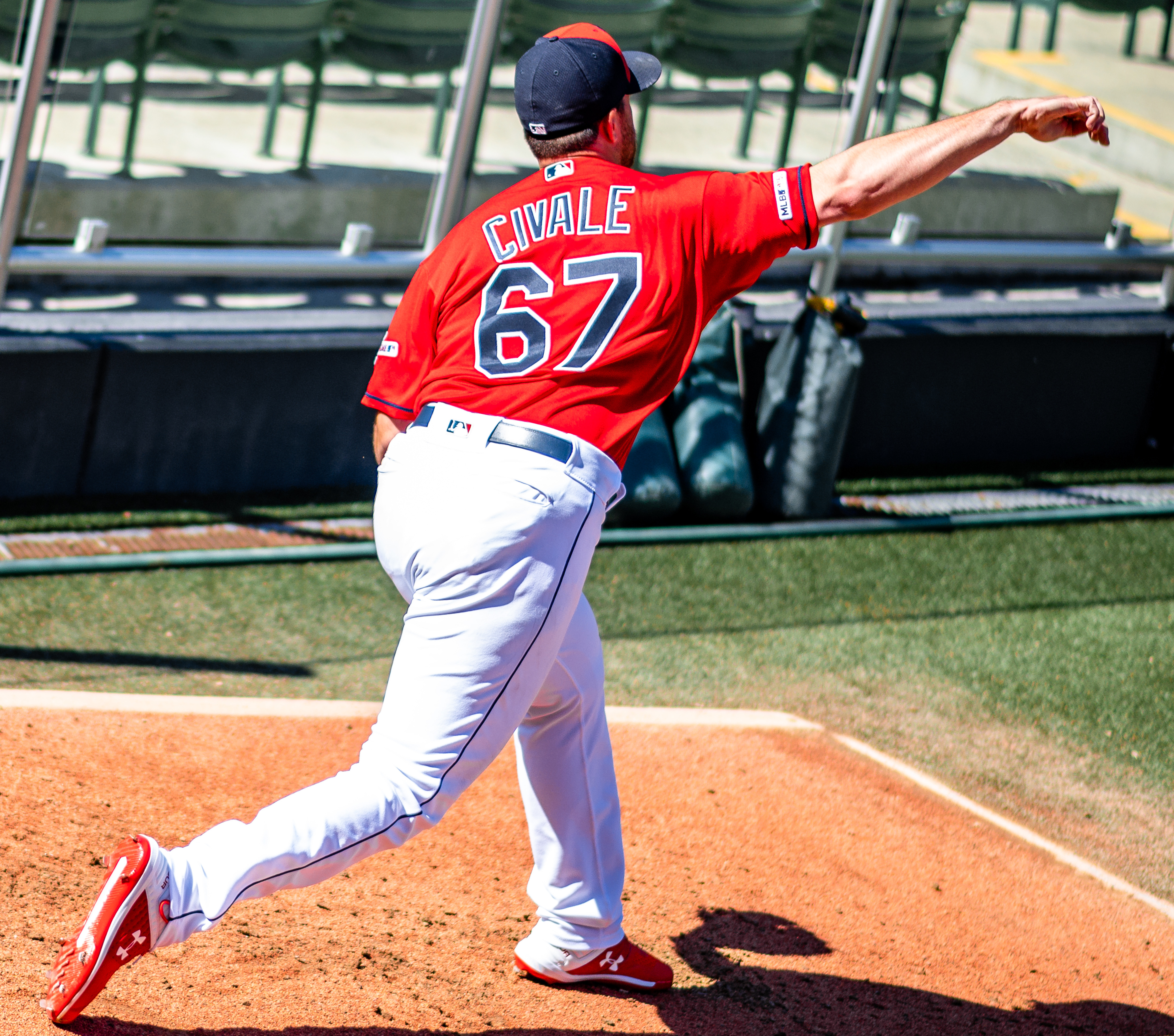 Aaron Civale of the Cleveland Indians throws in the bullpen at Progressive Field in 2019